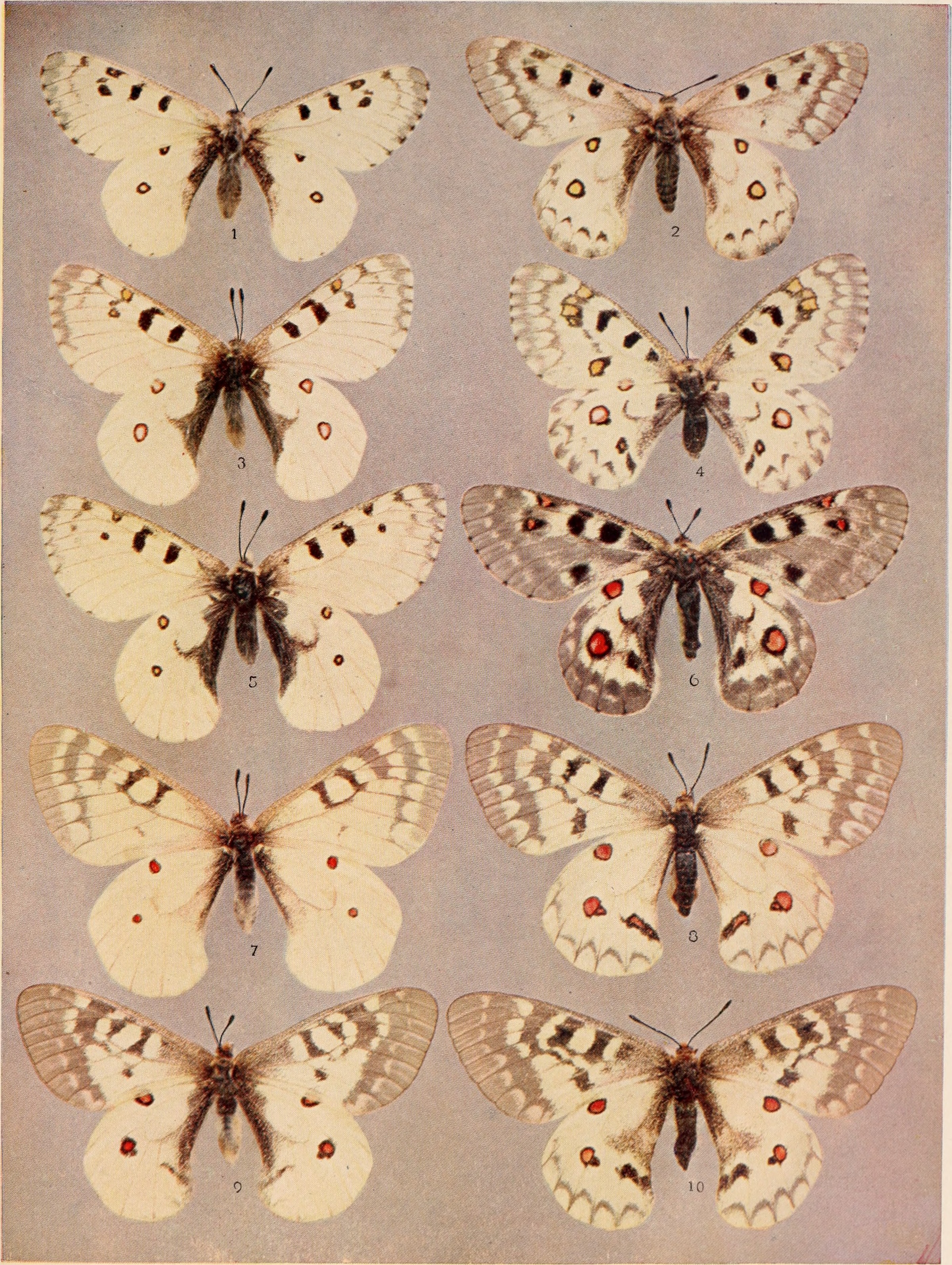 1 Parnassius smintheus var. behrii male 2 Parnassius smintheus var. behrii female 3 Parnassius smintheus male 4 Parnassius smintheus female 5 Parnassius smintheus male mate of female hermodur 6 Parnassius smintheus hermodur female 7 Parnassius clodius baldur male 8 Parnassius clodius baldur female 9 Parnassius clodius male 9 Parnassius clodius female Title: The butterfly book; a popular guide to a knowledge of the butterflies of North America Year: 1898 (1890s) Authors: Holland, W. J. (William Jacob), 1848-1932 Subjects: Butterflies -- North America Publisher: New York, Doubleday & McClure Co. Text Appearing Before Image: THE BUTTERFLY BOOK. PLATE XXXIX. Text Appearing After Image: COPYRIGHTED BY W. J. HOLLAND, 1B98